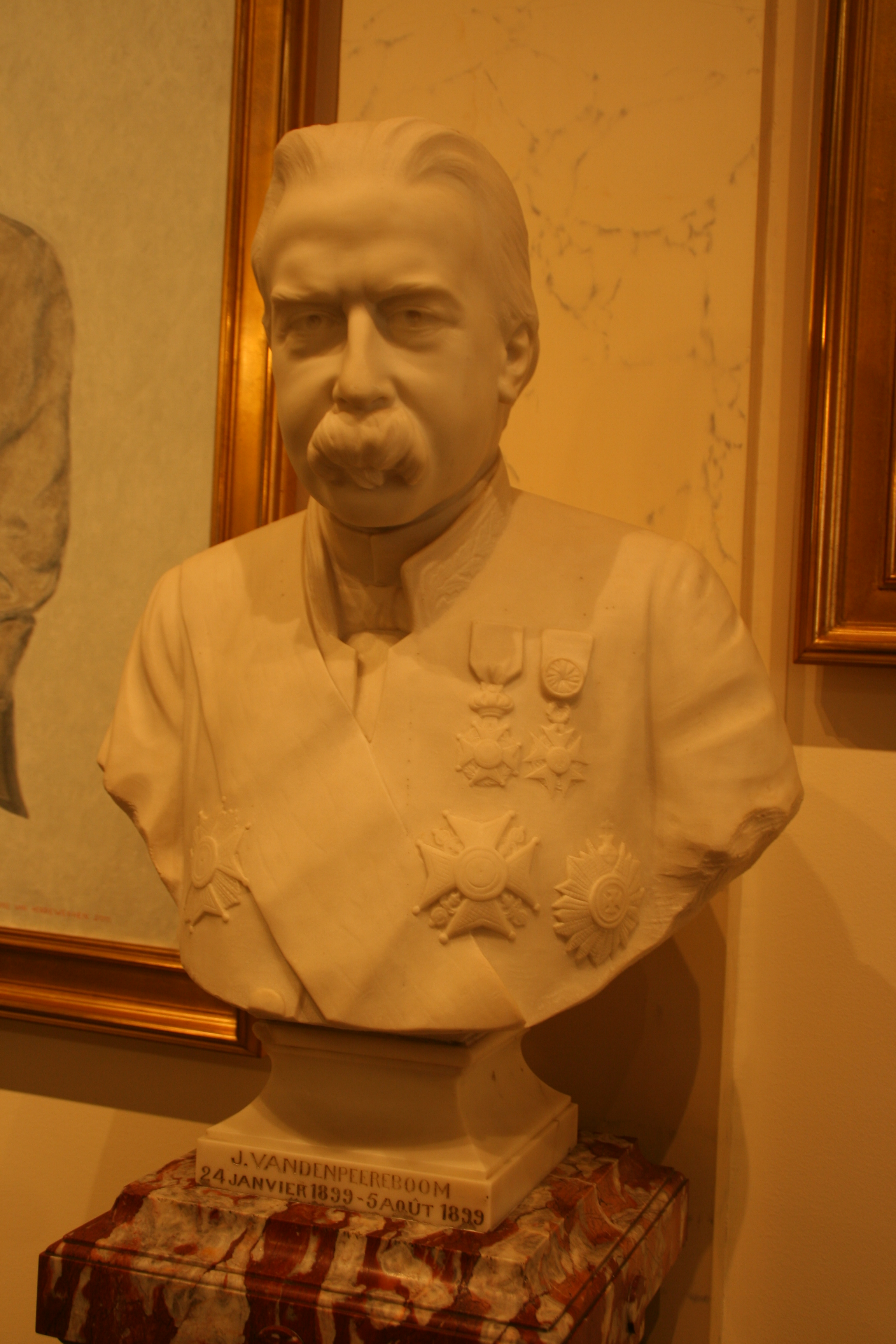 Bust of Jules Vandenpeereboom in the Palais de la Nation in Brussels, Belgium.